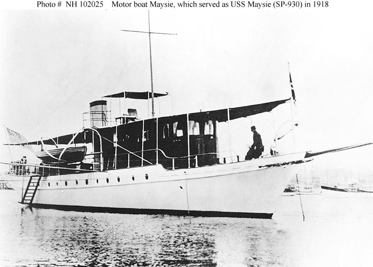 The private motor yacht Maysie sometime prior to her United States Navy service as the patrol vessel